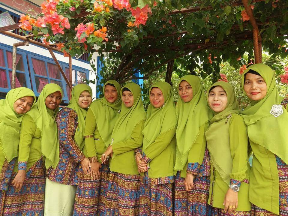 The Teacher of SDN Kuta Batee Before class start